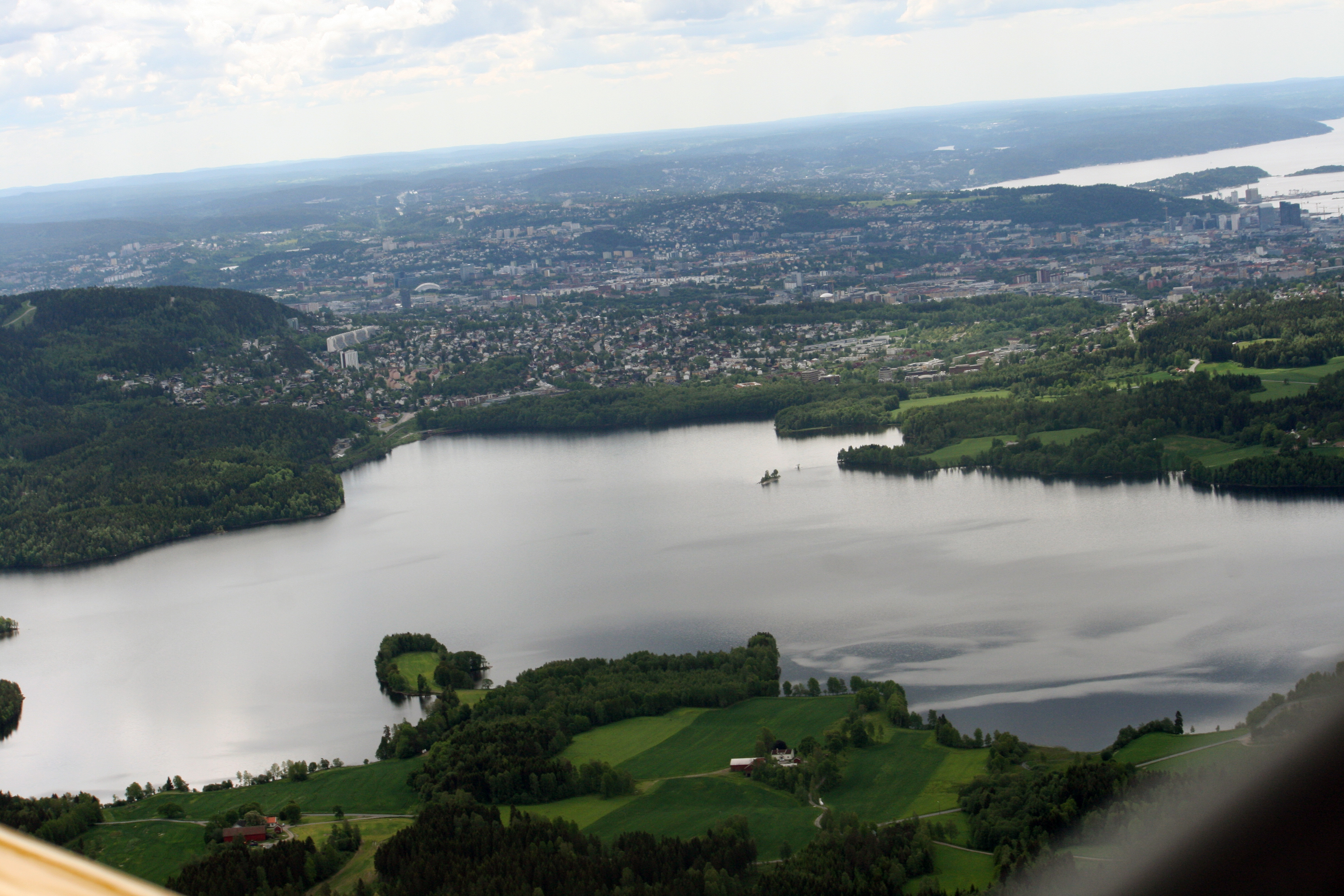 Aerial photograph from June 14th, 2015. Lake Maridalsvannet with Oslo in the background.